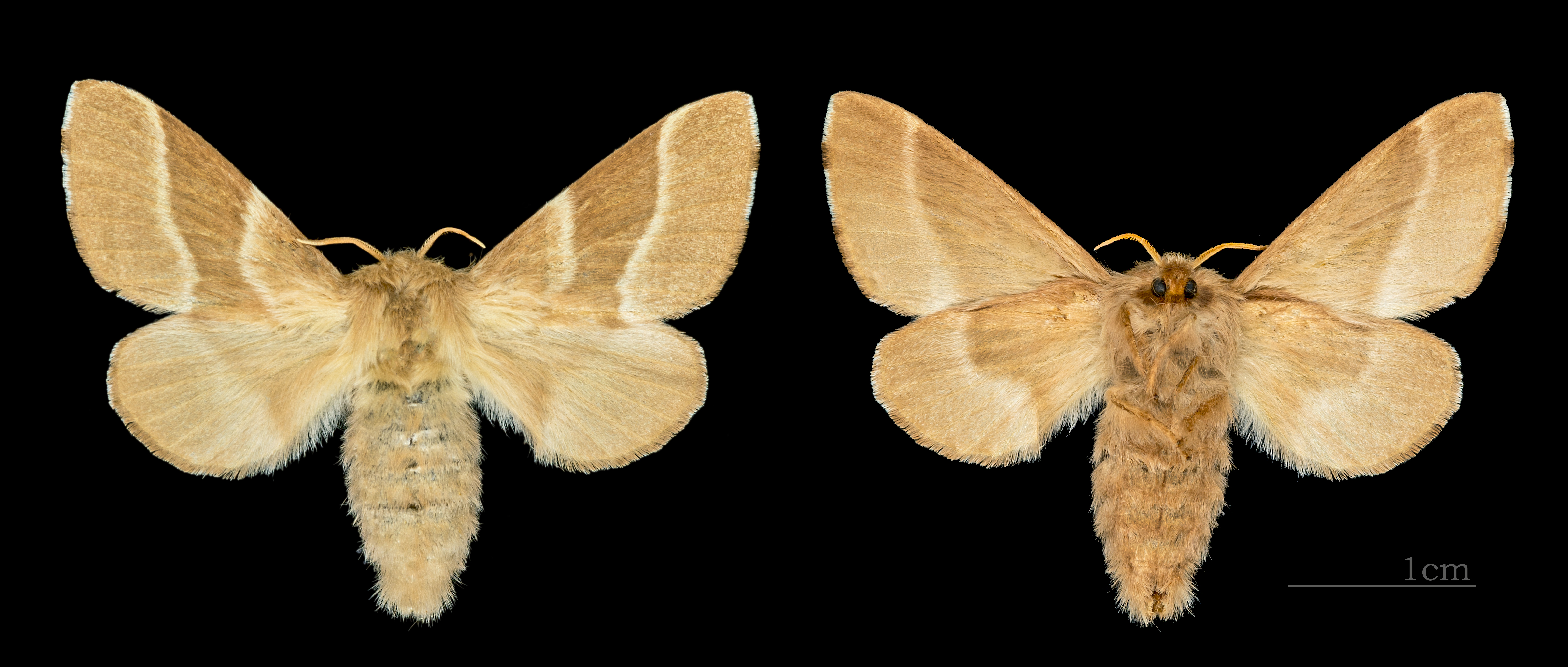 Lackey moth - Two views of same specimen